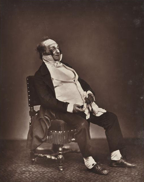 Henry Monnier (1799-1877) playing the part of Monsieur Prudhomme. Photograph by Étienne Carjat (1828-1906), c.1875. Woodburytype, Musée d’Orsay, Inventory Number : PHO1983-165-510-16.